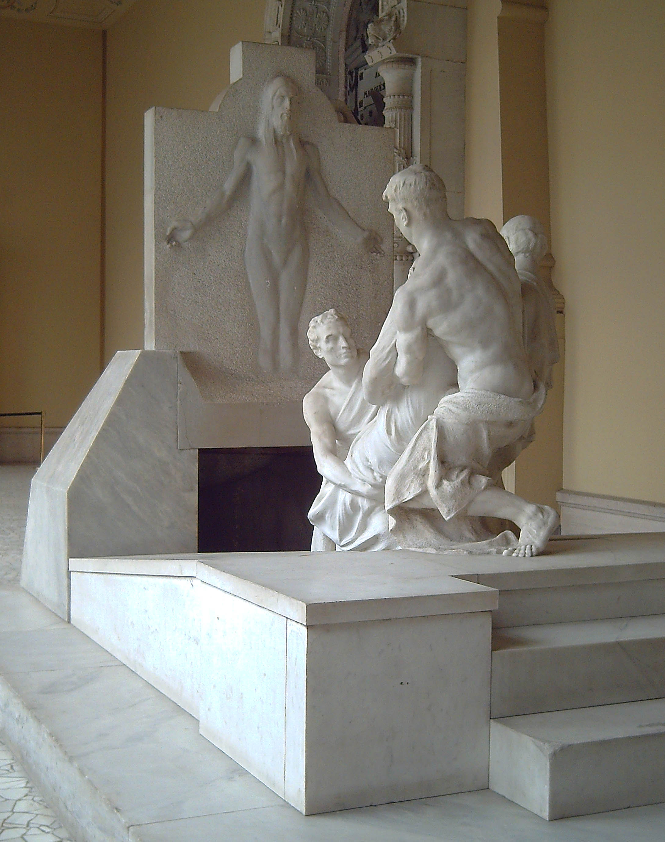 Mausoleum of José Canalejas (1854–1912). Made of white marble and stone by sculptor Mariano Benlliure (1862–1947). It is at the Panteón de Hombres Ilustres (Pantheon of Illustrious Men) in Madrid (Spain).